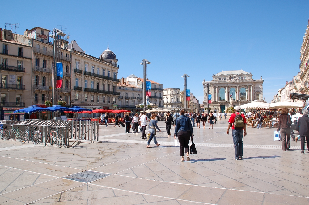 Opera, Montpellier, Languedoc-Roussillon, France